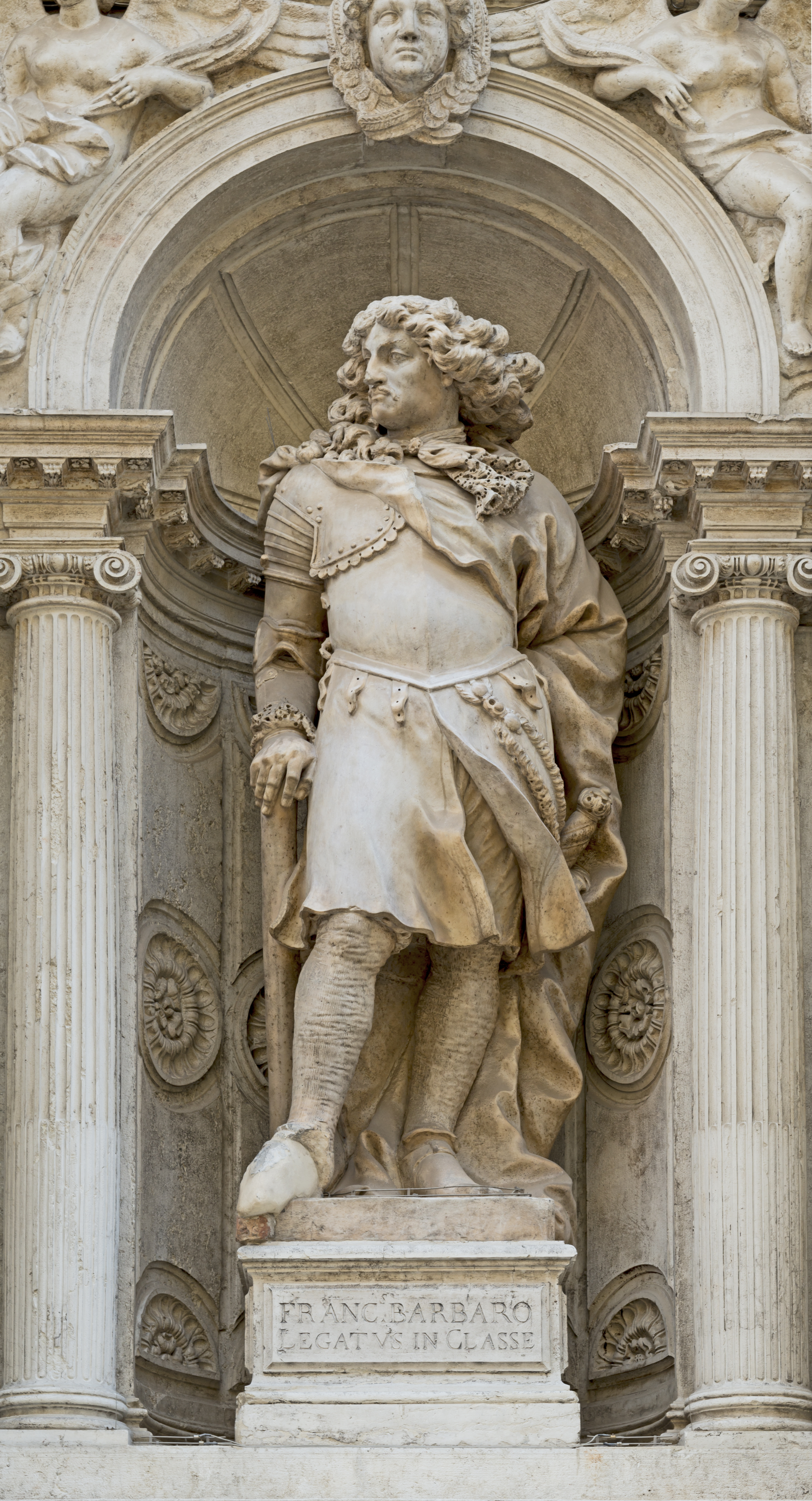 Church Santa Maria del Giglio in Venice Facade - Statue of Francesco Barbaro attributed to Enrico Merengo.